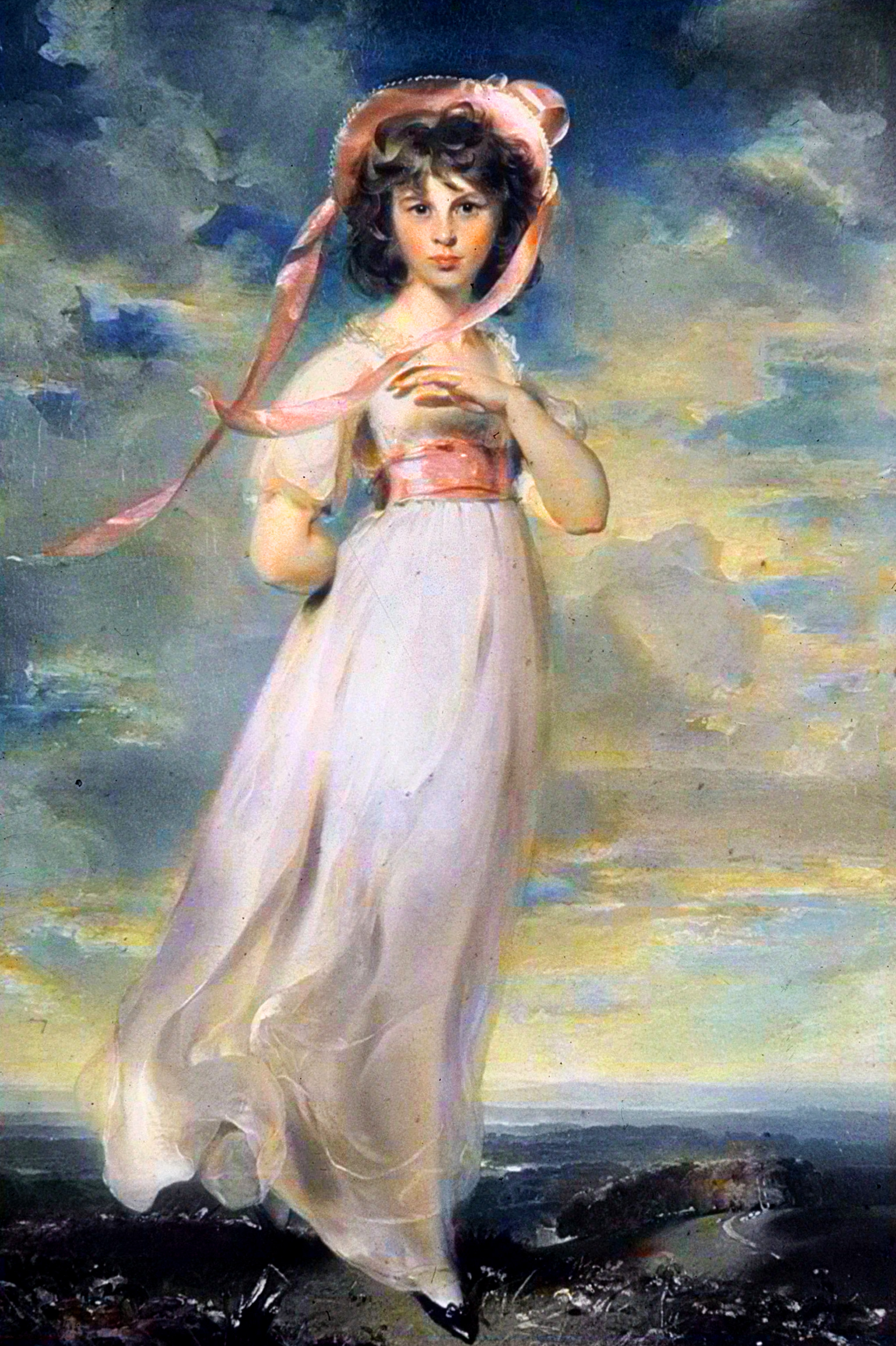 (*Subject: Sarah Barrett Moulton: Pinkie *Artist: Thomas Lawrence *Date: 1794 *Medium: Oil on canvas *Dimensions: 148 x 102 cm *Location: The Huntington Library, Pasadena, California Thomas Lawrence (1769–1830) DescriptionBritish painterDate of birth/death 13 April 1769 7 January 1830Location of birth/death Bristol LondonAuthority control : Q312096 VIAF: 59122598 ISNI: 0000 0001 1473 2825 ULAN: 500022619 LCCN: n81008170 NLA: 35281740 WorldCat creator QS:P170,Q312096 This image is made from 2 preexisting wikimedia files. I just mixed up to obtain more color quality and resolution.